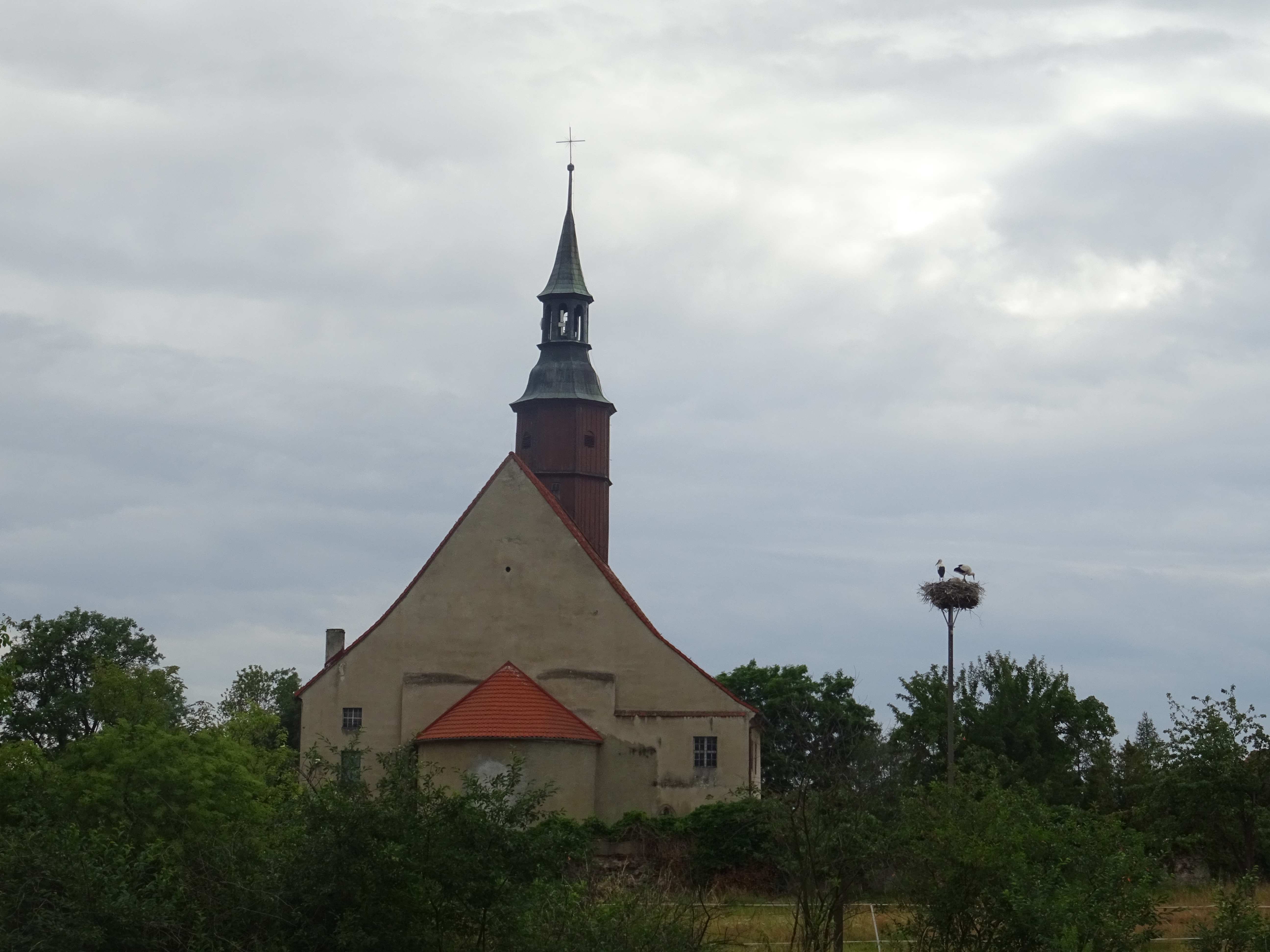 This photograph was created as a part of Wikiexpedition Lower Silesia, a project supported by Wikimedia Poland grant.